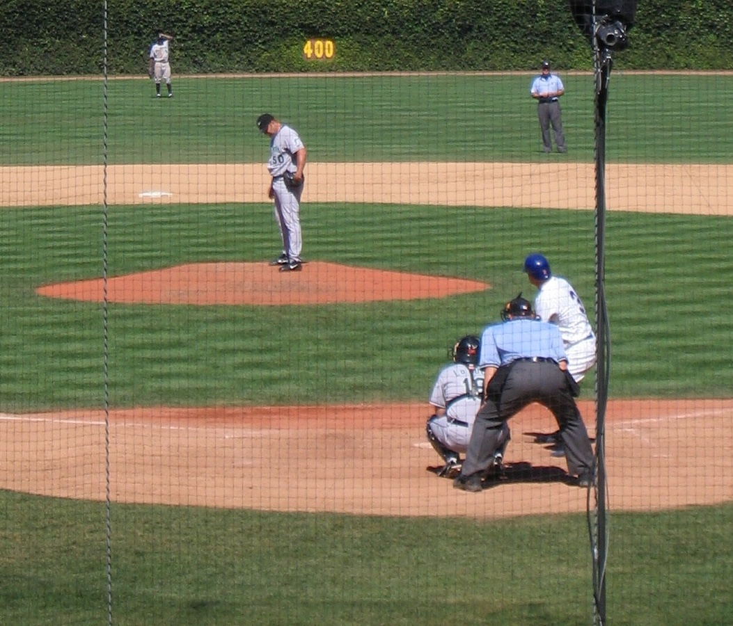 Cropped from Image:Wrigleyboard_8_27_05.jpg. This photo was taken during the August 27, 2005 Cubs-Marlins game.